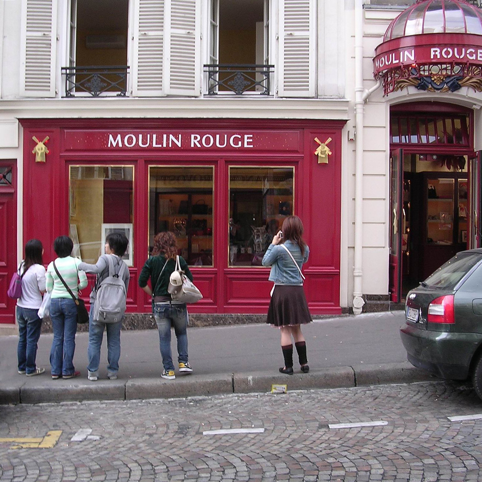 Japanese people at the secondary entrance of the Moulin Rouge, at 9 Rue Lepic in the 18th arrondissement of Paris.